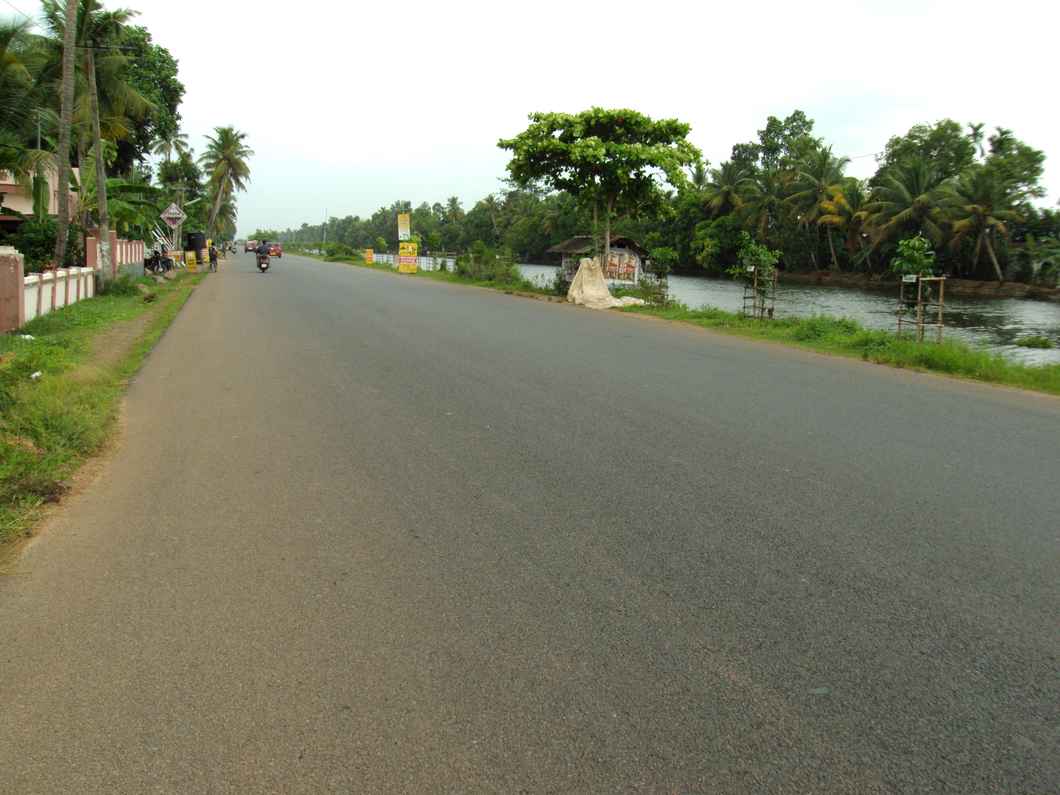 AC Road at Kidangara Alleppey - Changanassery Road